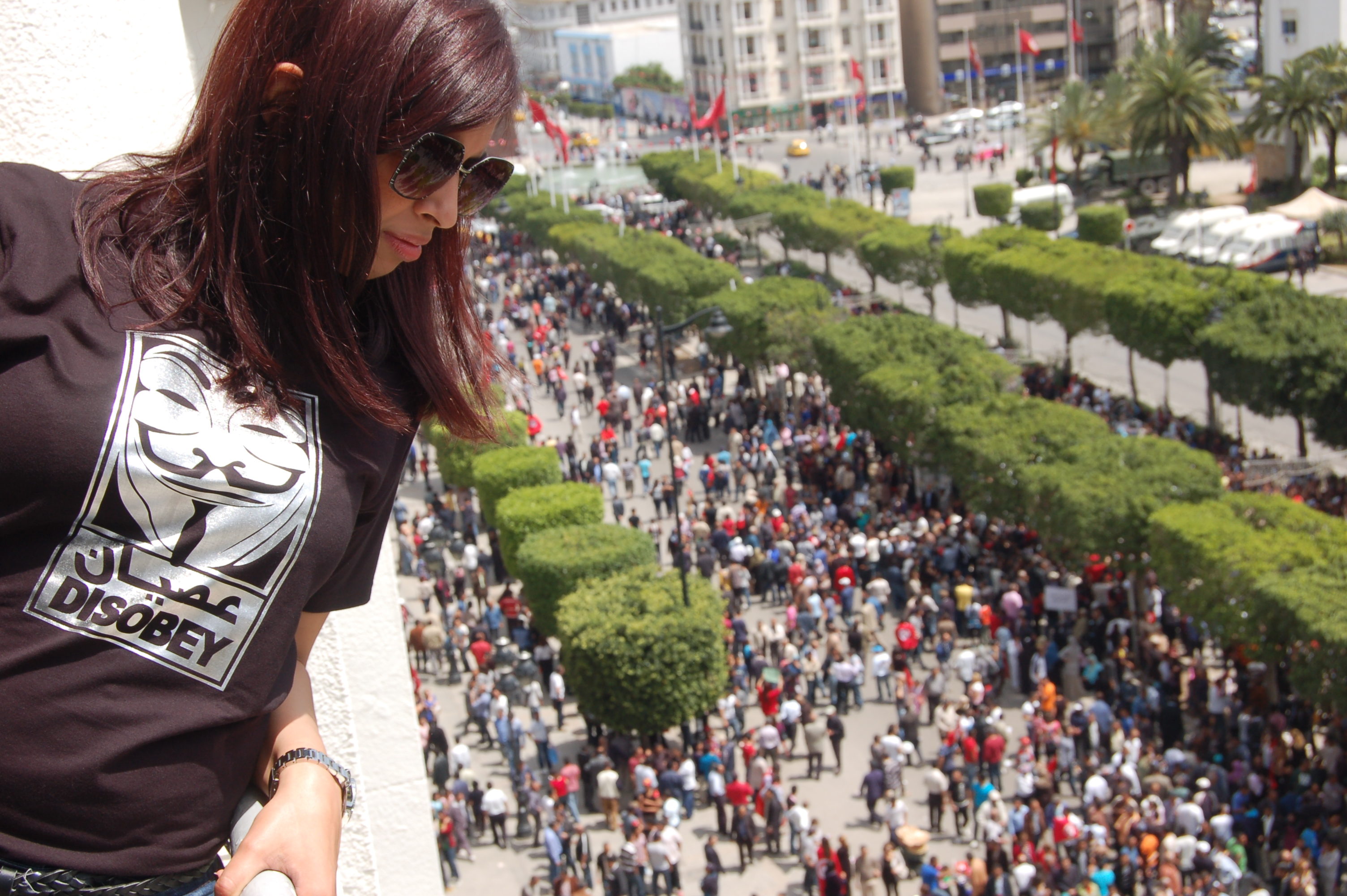 Anonymous girl overlooking the 1st of May 2012 protest in Tunis, Tunisia